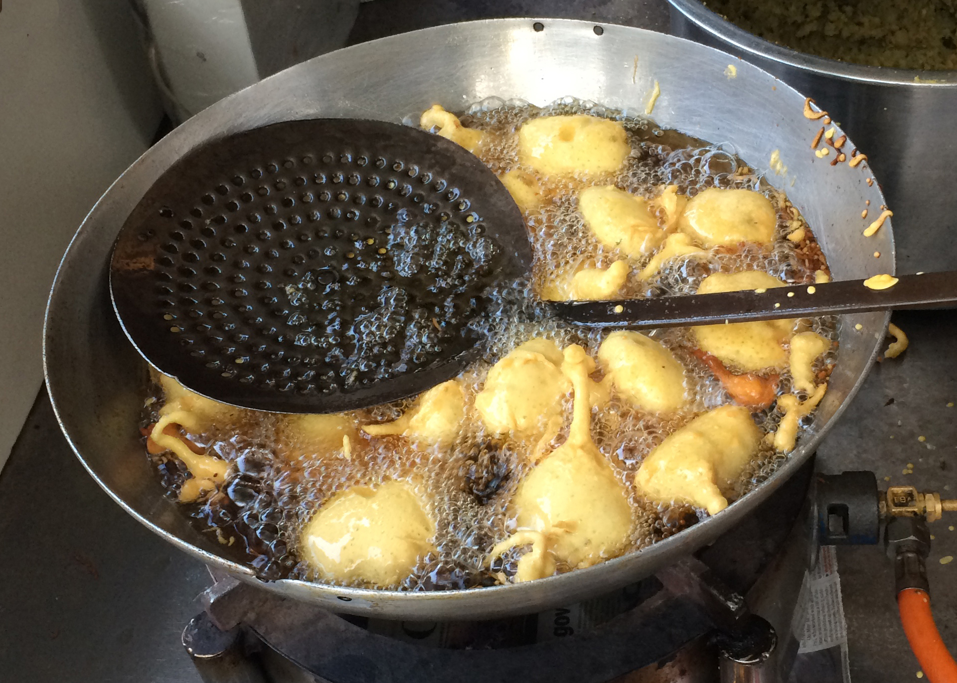 Batada Vada preparation in Mumbai for vada pav